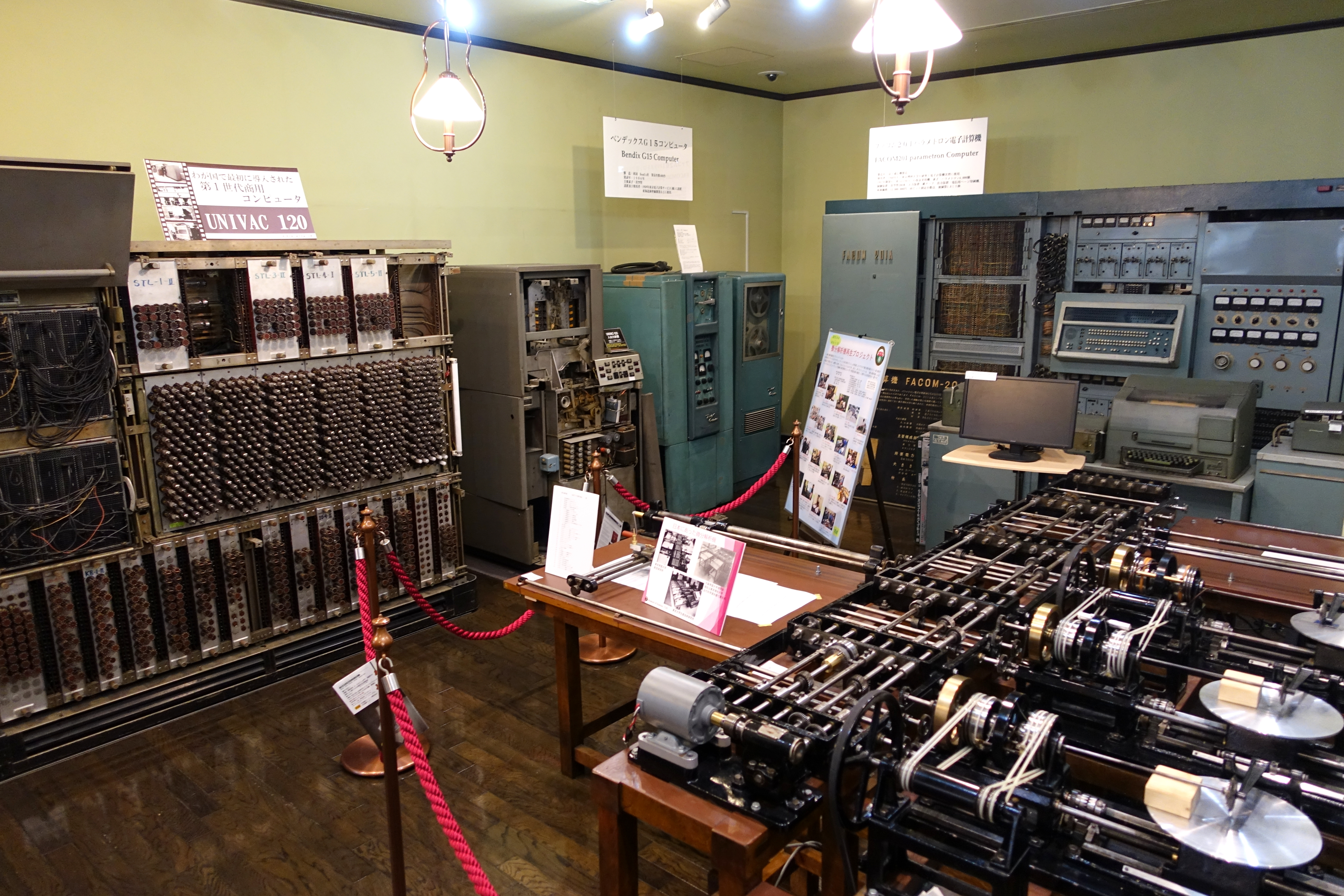 Ridai Museum of Modern Science, Tokyo University of Science, Kagurazaka campus - 1-3 Kagurazaka, Shinjuku-ku, Tokyo.